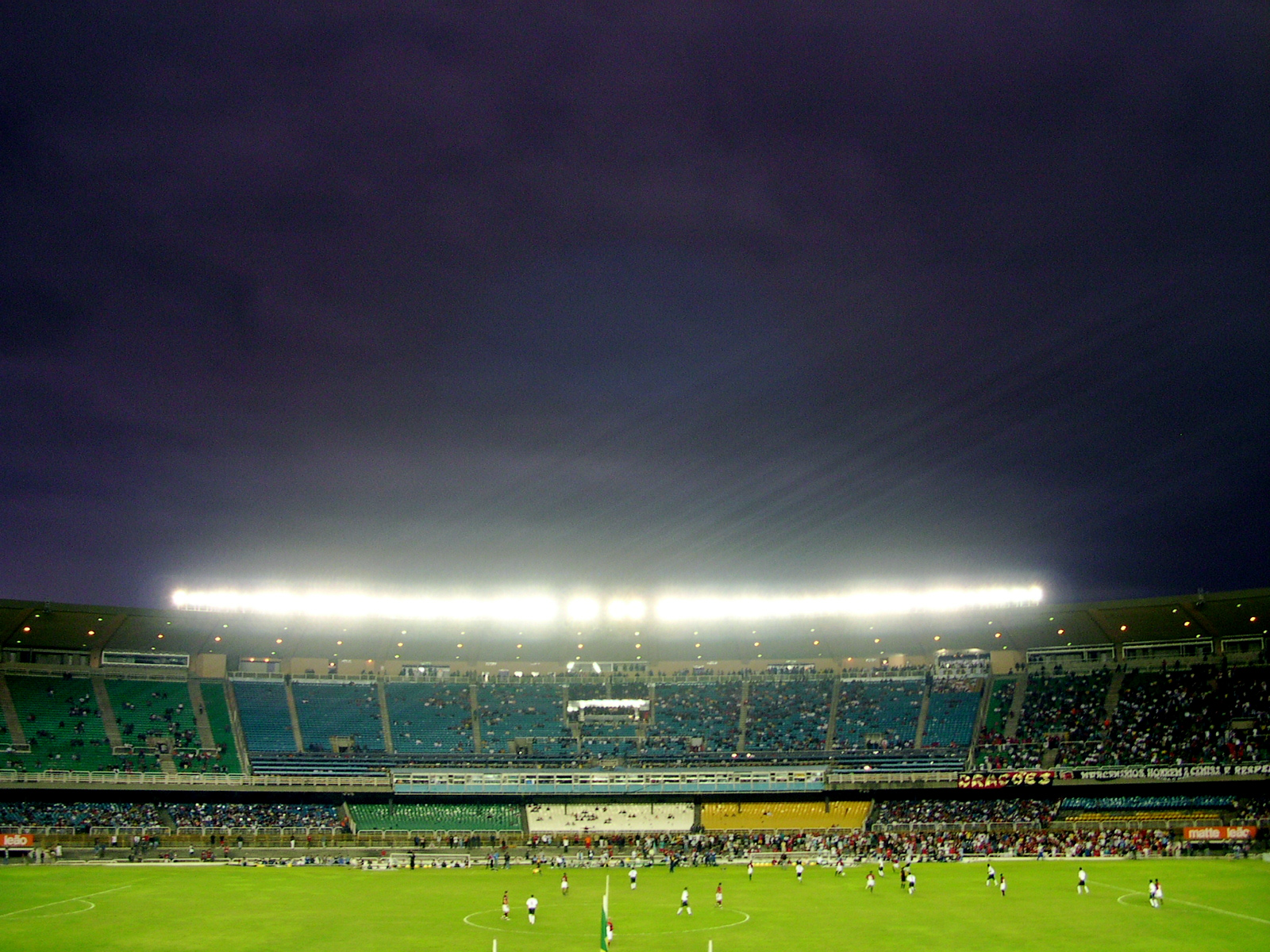 Maracanã Stadium.Maracanã